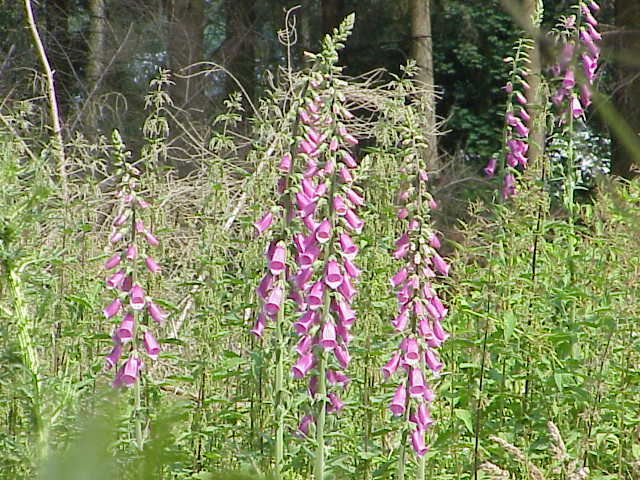 Species: Digitalis purpurea Family: Scrophulariaceae Image No. 2